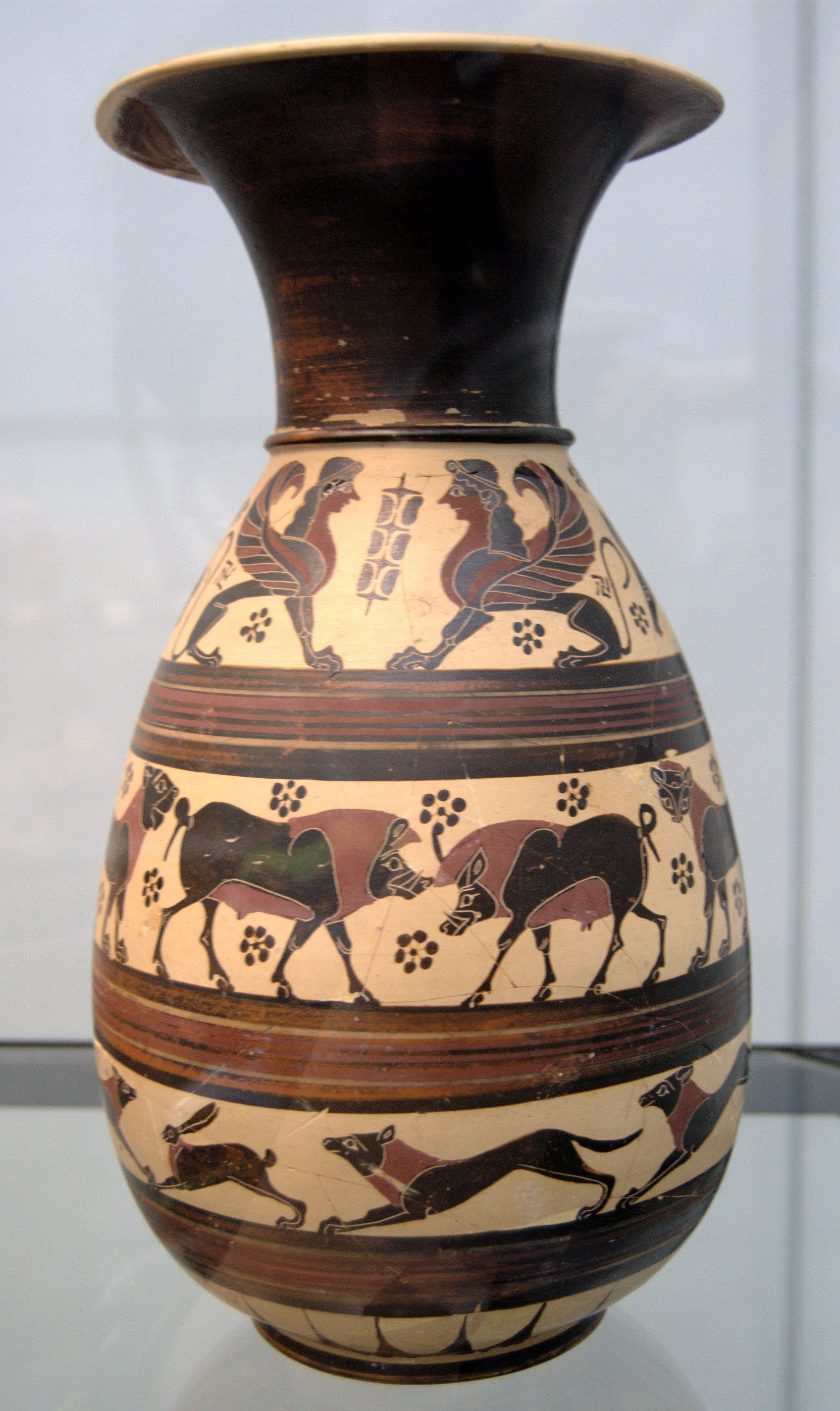 Oil jug, Corinth, ca. 620 BC.